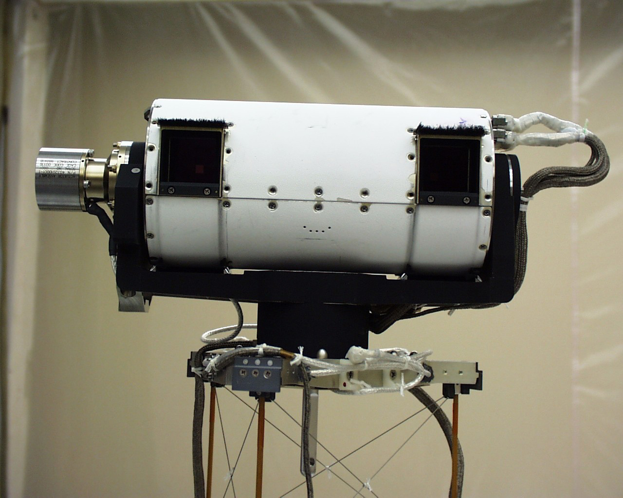 SSI will serve as Phoenix's "eyes" for the mission, providing high-resolution, stereo, panoramic images of the martian arctic.